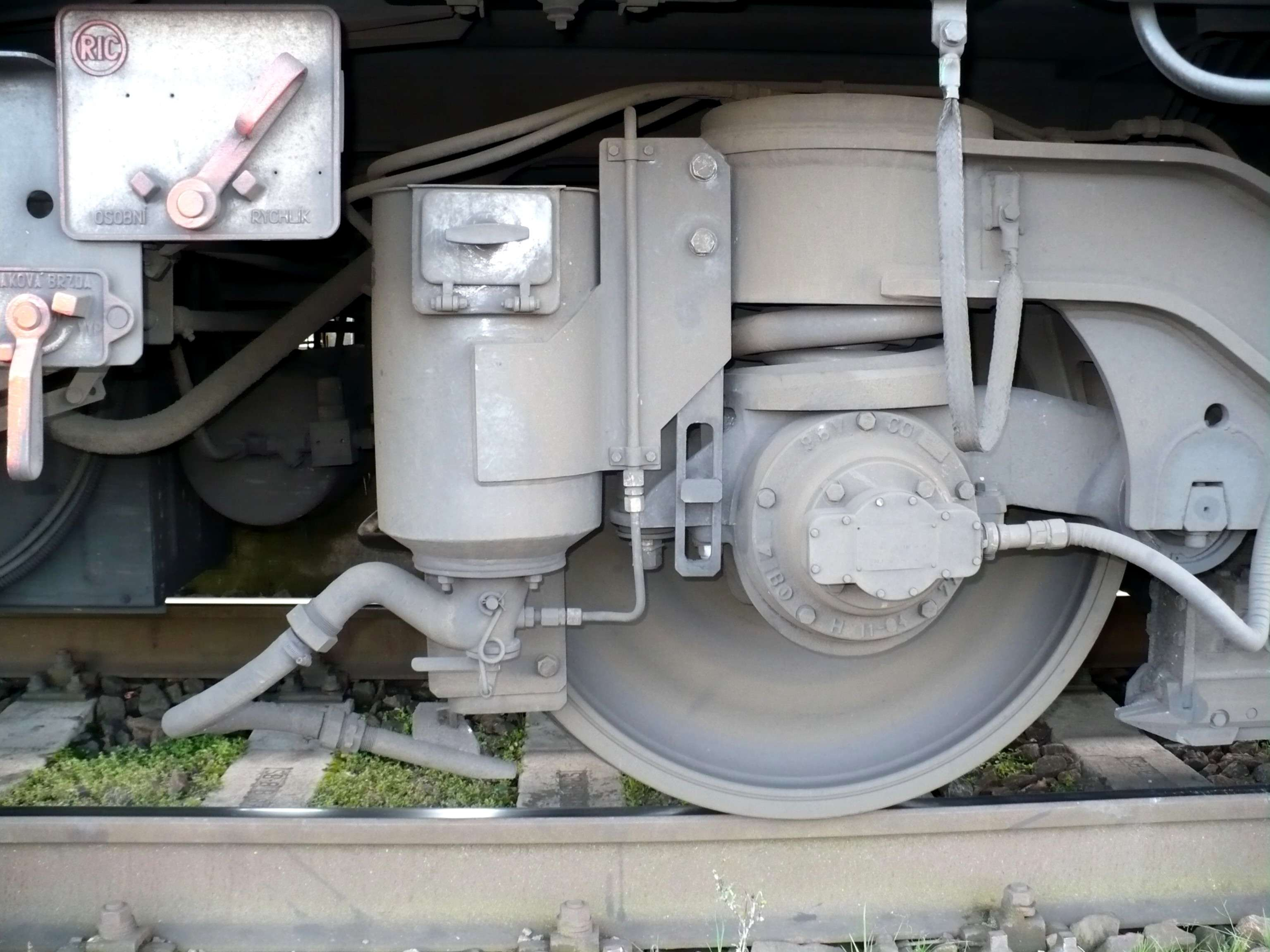 The sandbox of a ČD class 971 driving trailer